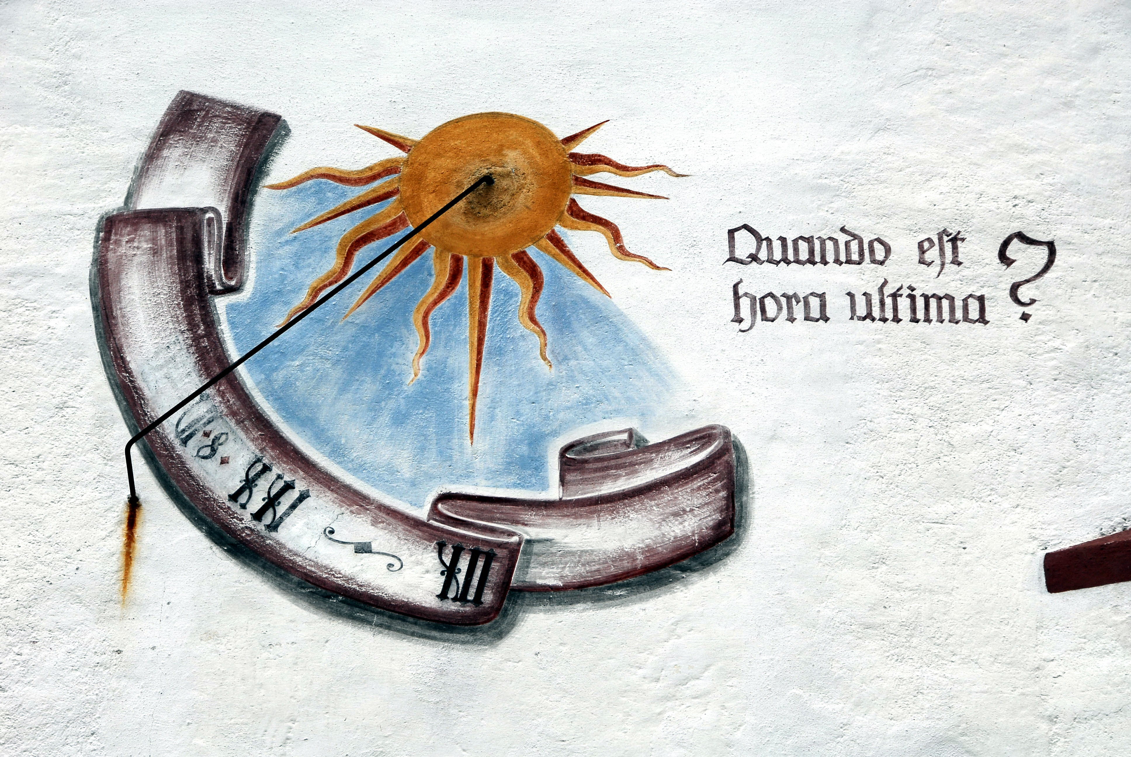 Sundial on the steeple of the parish church Saint Nicholas at Liesing, municipality Lesachtal, district Hermagor, Carinthia / Austria / EU